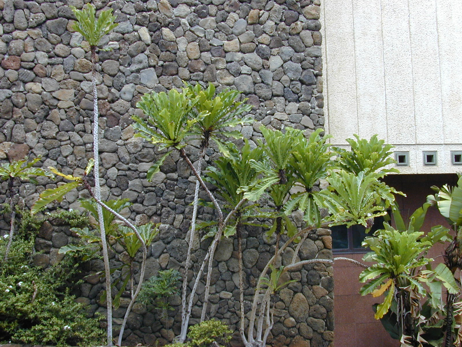 Ficus pseudopalma (habit). Location: Maui, State building Wailuku